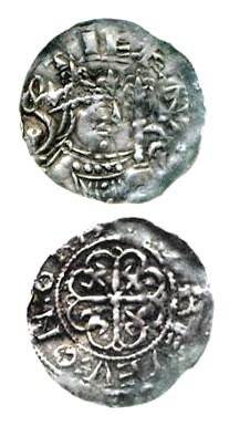 Silver penny of Stephen, King of the English.